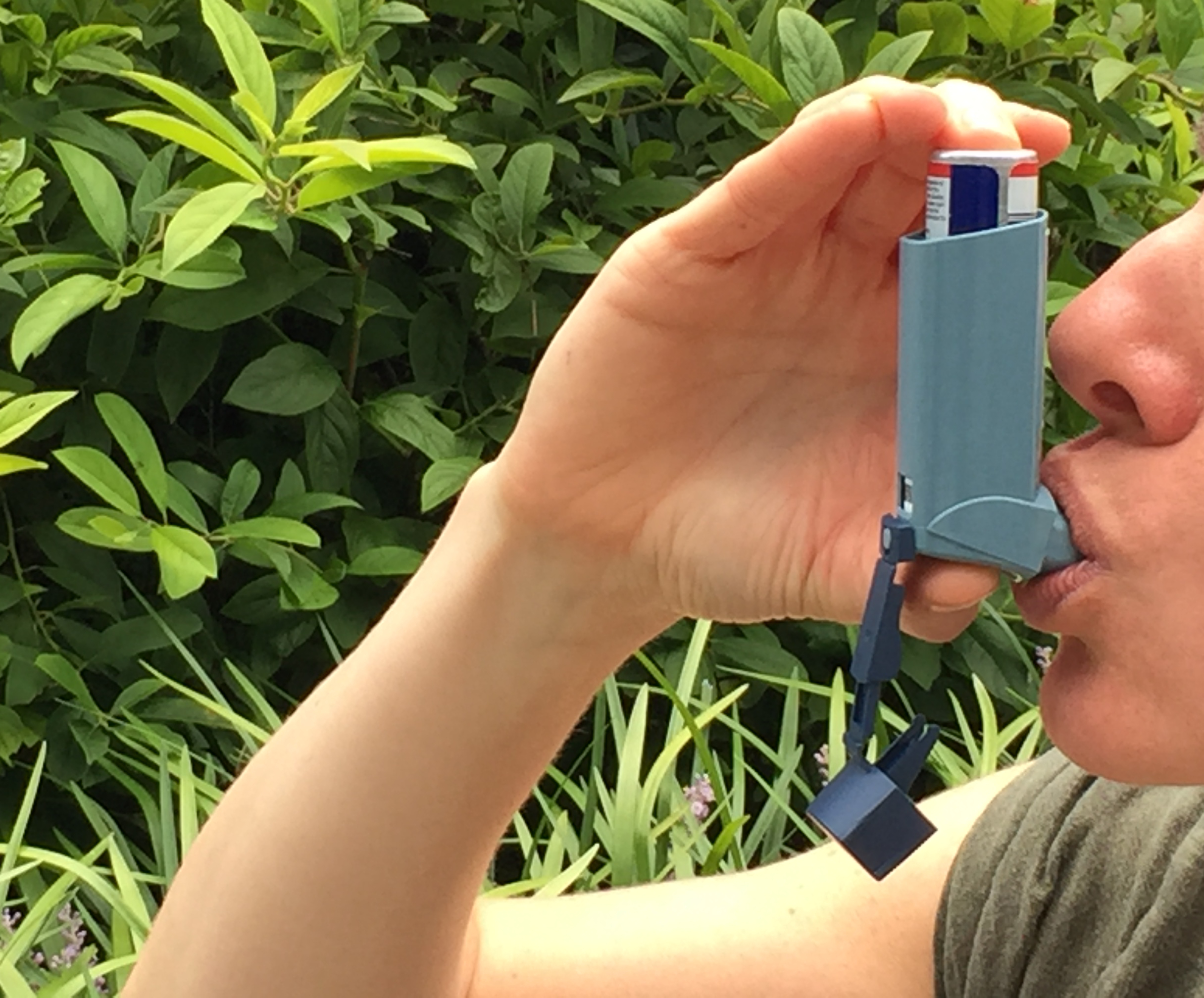 Adult using an asthma inhaler. Credit: NIAID